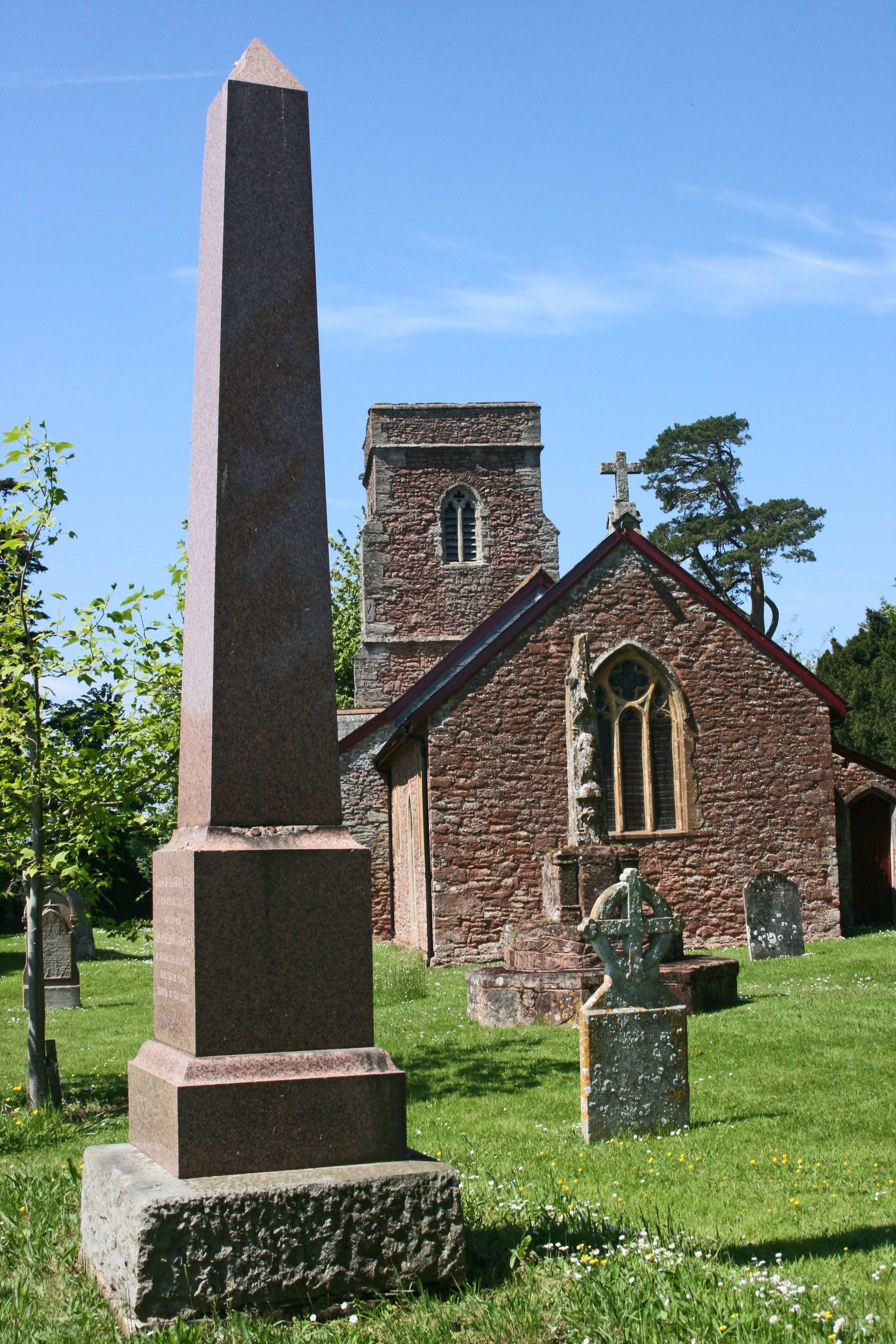 Church at Heathfield